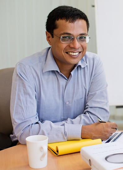 Sachin Bansal, CEO of